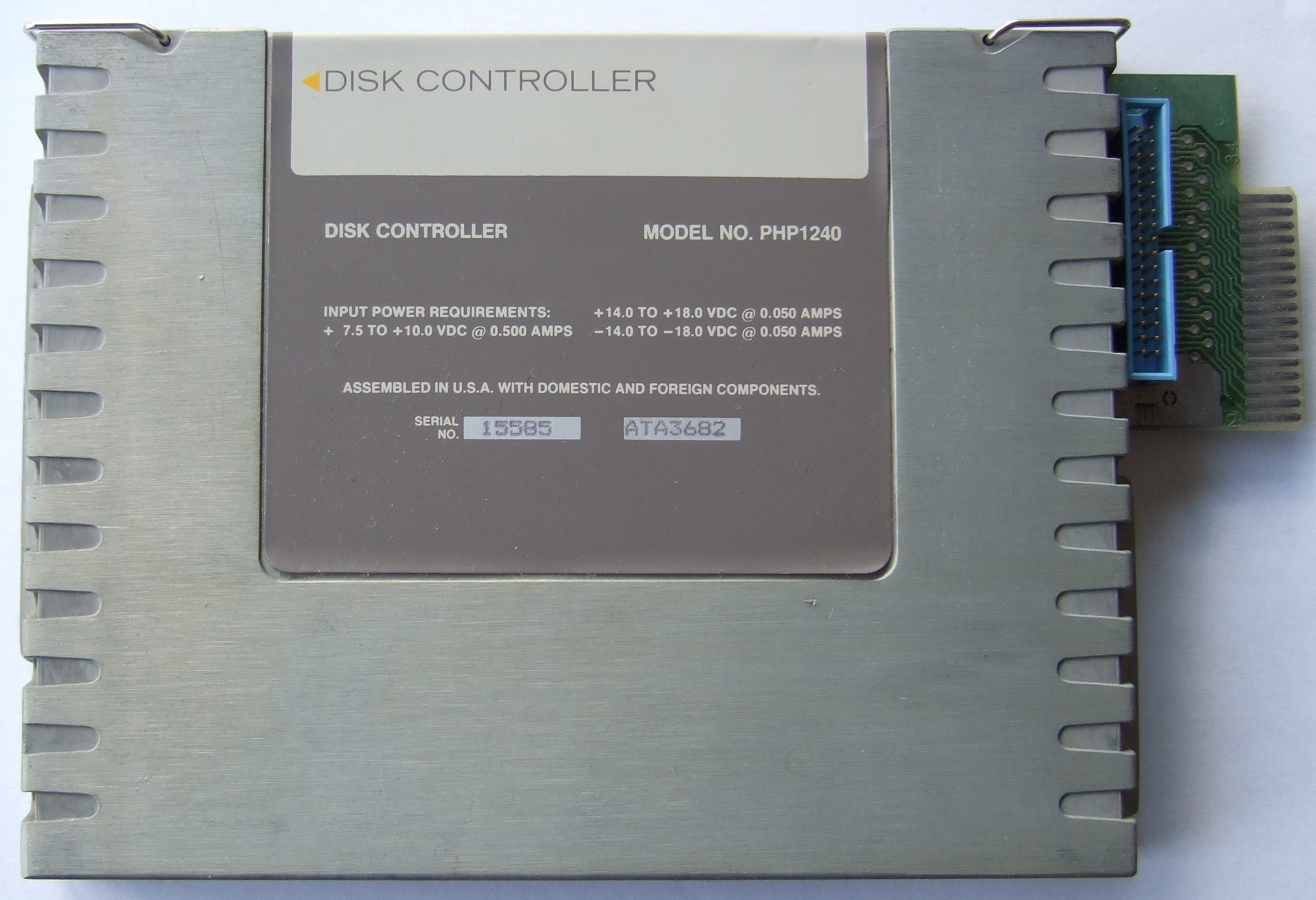 A PHP1240 Disk Controller Card for the TI-99/4A microcomputer